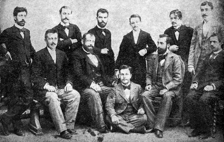 Members of the young Turks. İshak Sükûti, Serâceddin Bey, Tunalı Hilmi, Âkil Muhtar, Mithat Şükrü, Emin Bey. Oturanlar: Eski Berlin Konsolosu Lutfi Bey, Doktor Şefik Bey, Nûri Ahmed, Doktor Reşîd, Münif Bey.